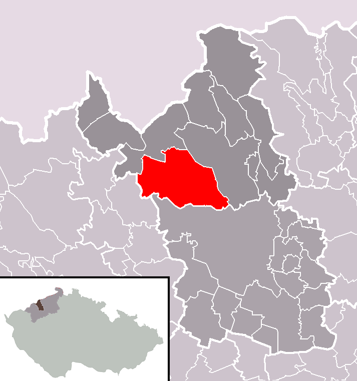 Location of Horní Jiřetín town within Most District and administrative area of Litvínov as a Municipality with Extended Competence.